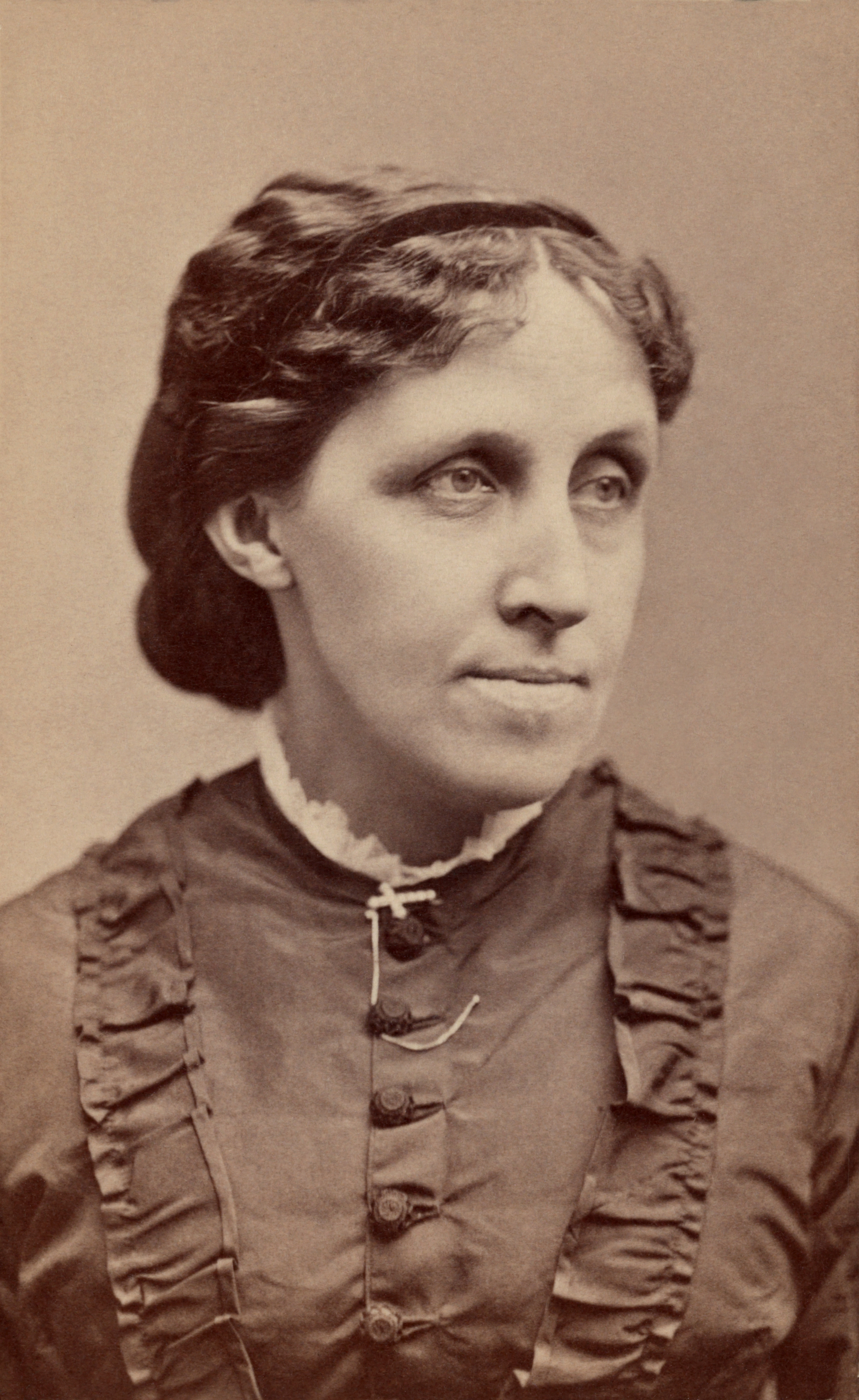 Title: Louisa May Alcott, writer, abolitionist, and Civil War nurse] / Warren's Portraits, 465 Washington St., Boston Abstract/medium: 1 photograph : albumen print on card mount ; mount 10 x 6 cm (carte de visite format)